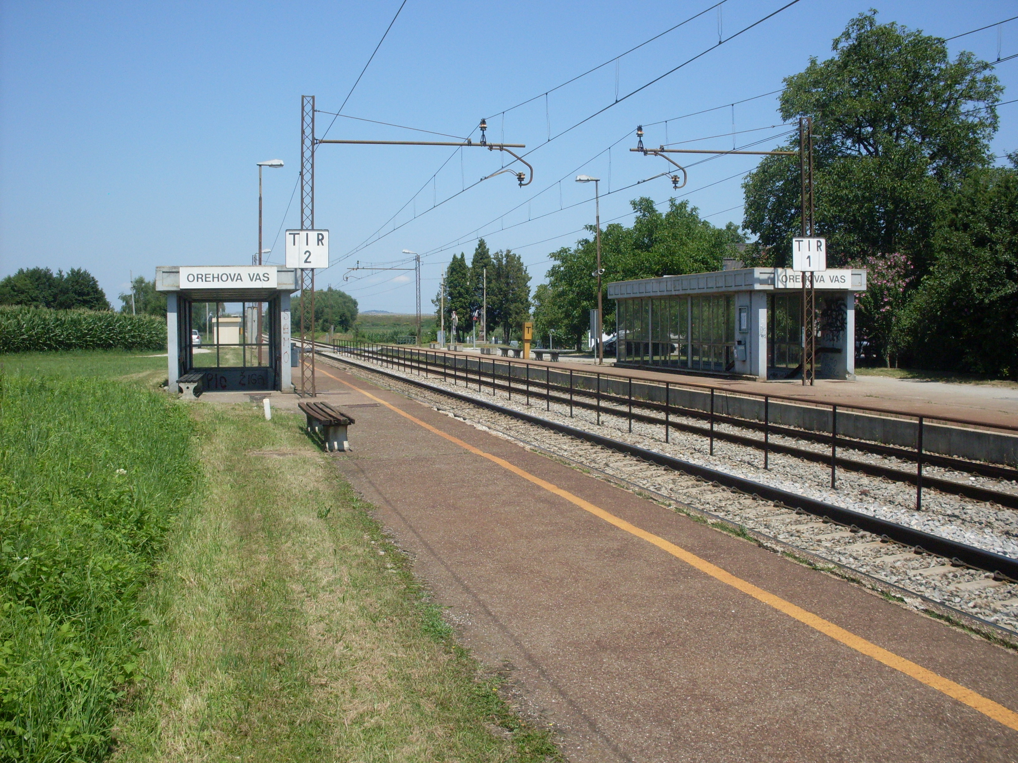 Railway halt Orehova vas (formerly named Slivnica), located between Slivnica pri Mariboru and Orehova vas